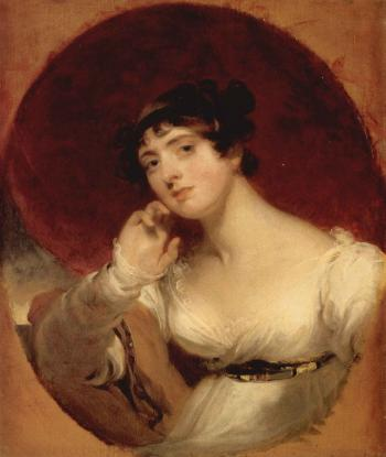 Portrait of Anne Stratton, née D'Ewes, wife of George Frederick Stratton (1799–c.1834).